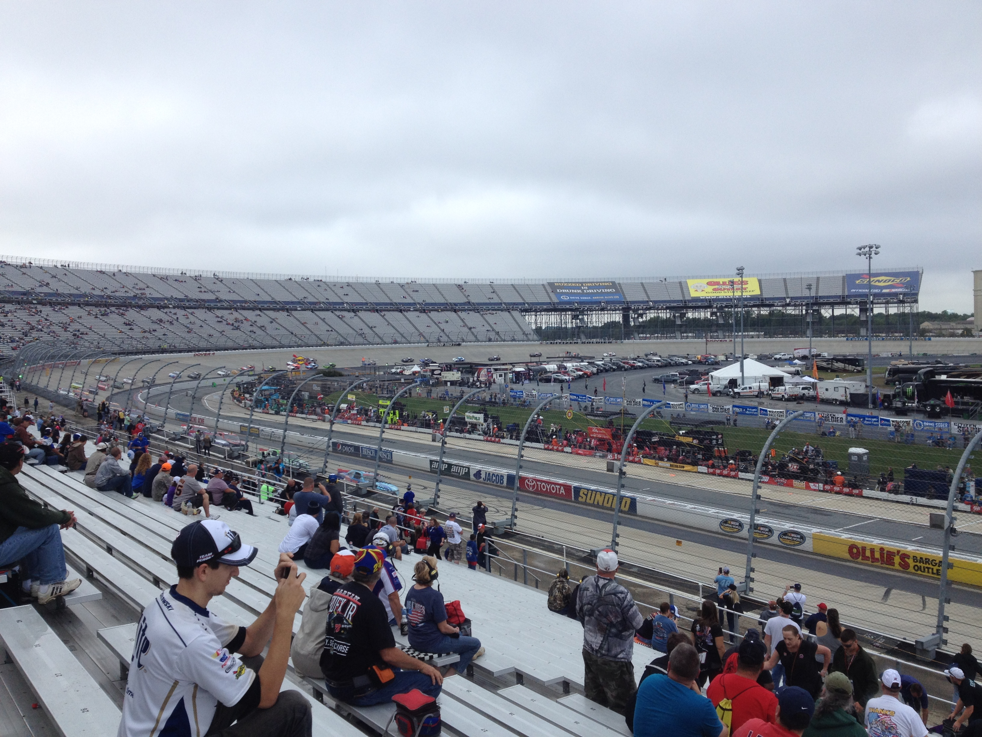 The 2016 Drive Sober 200 at Dover International Speedway viewed from the frontstretch, with Erik Jones (#20) leading Daniel Suarez (#19) and the rest of the field.